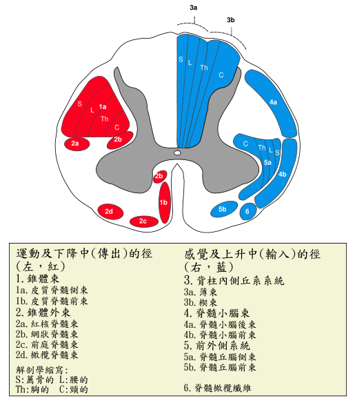 The Chinese version of Image:Medulla spinalis - tracts - English.svgImage:Medulla spinalis - tracts - English.svg的中文版本